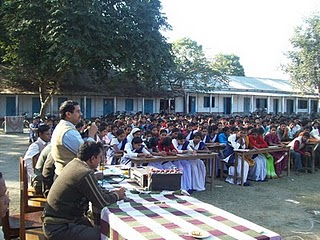 Students Farewell of B.M.D.H. HIGH SCHOOL - 2009-10